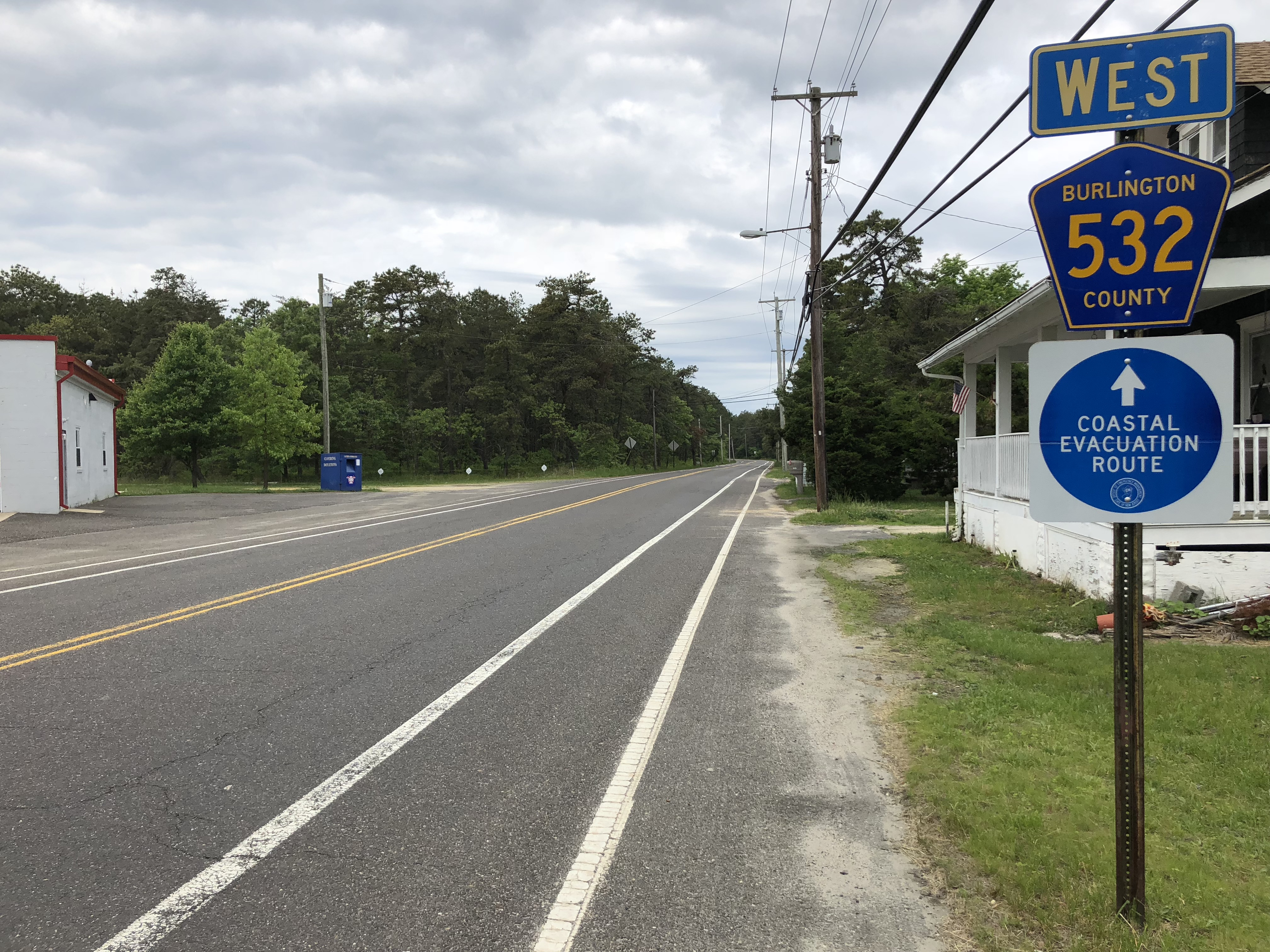 View west along Burlington County Route 532 (Tabernacle-Chatsworth Road) at Burlington County Route 563 (Main Street) in Woodland Township, Burlington County, New Jersey